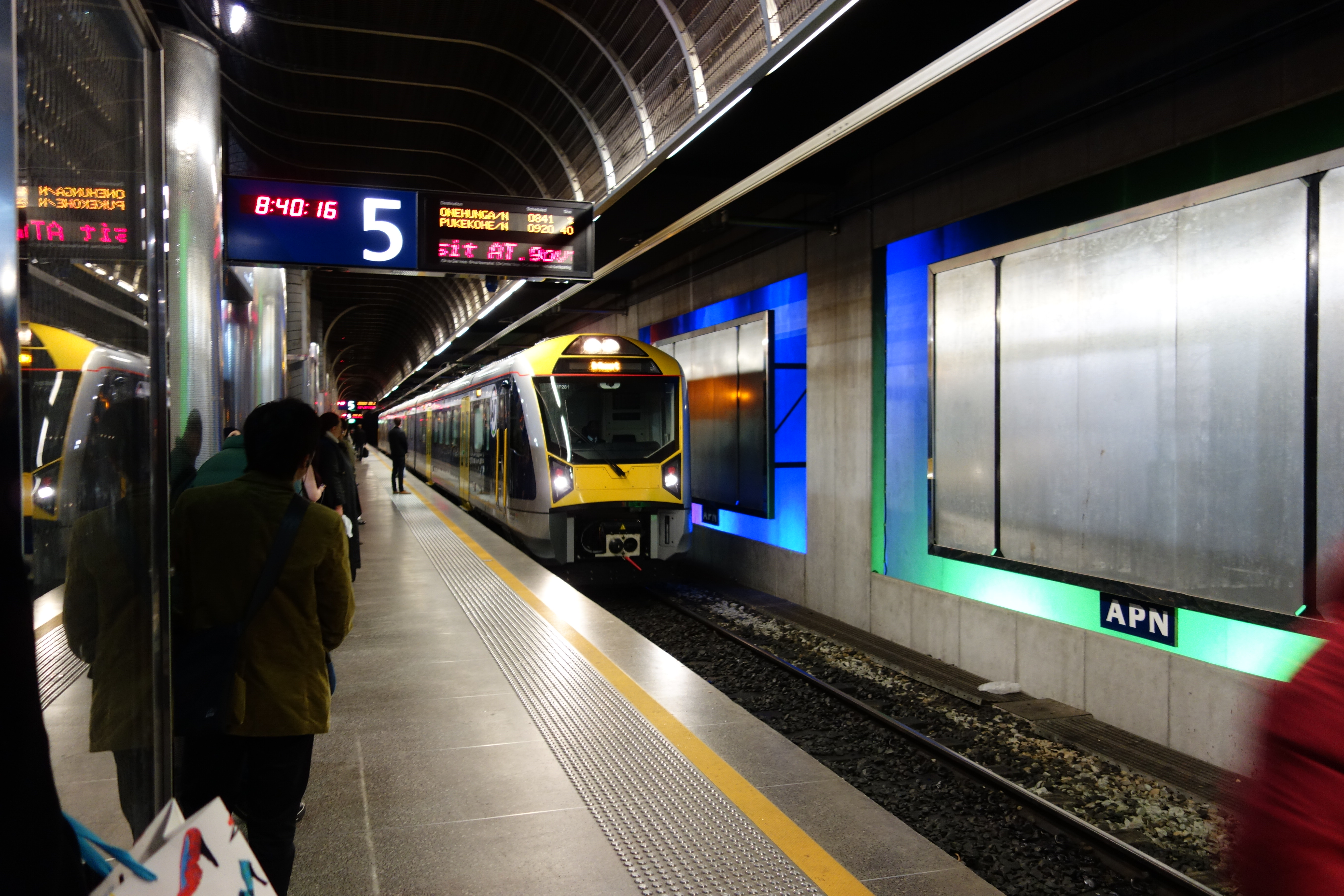 Britomart Transport Centre